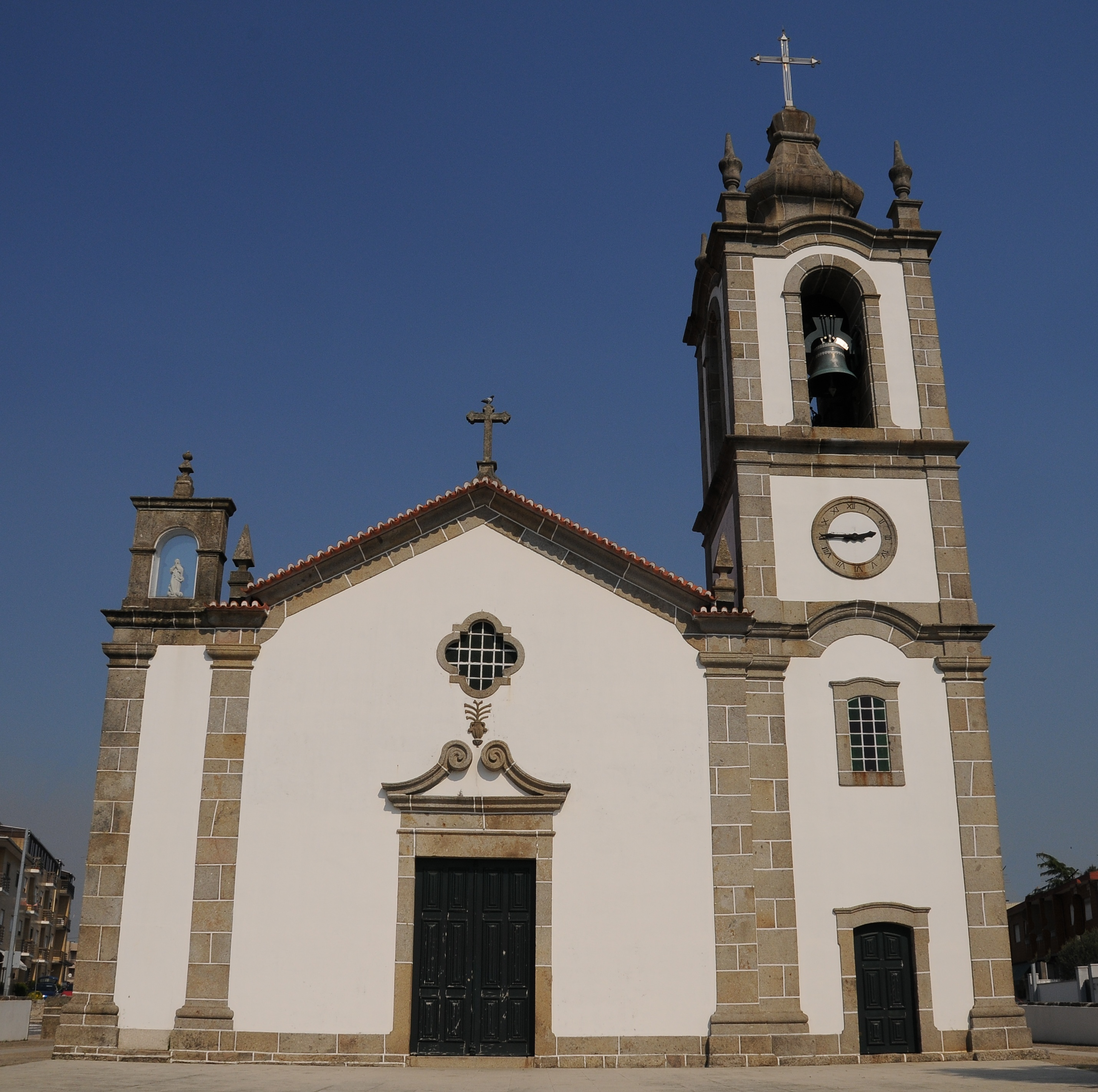 Vermoim Church, in Vila Nova de Famalicão, Portugal